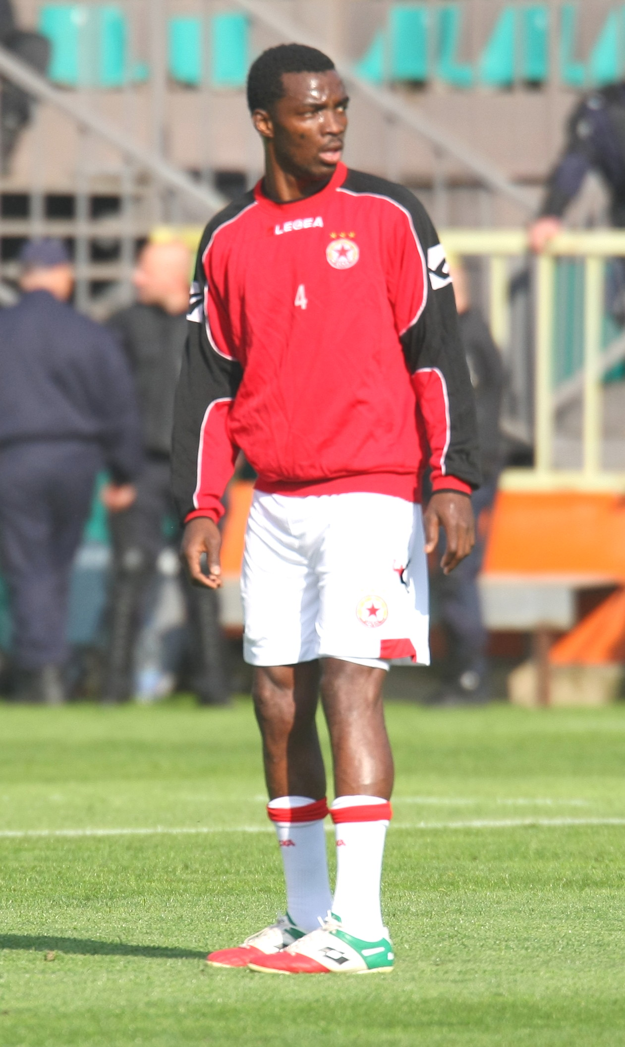 Stephen Obayan Sunday (born 17 September 1988), nicknamed Sunny, is a Nigerian footballer who plays for PFC CSKA Sofia in the Bulgarian A Professional Football Group, as a defensive midfielder.